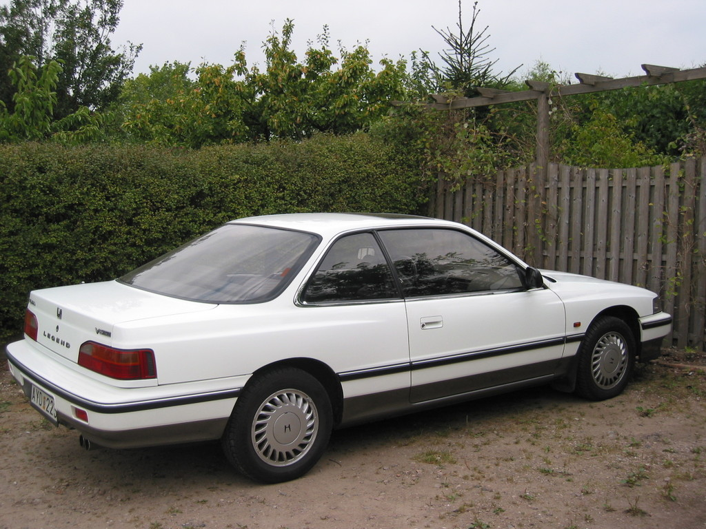 First-generation Honda Legend 2-door